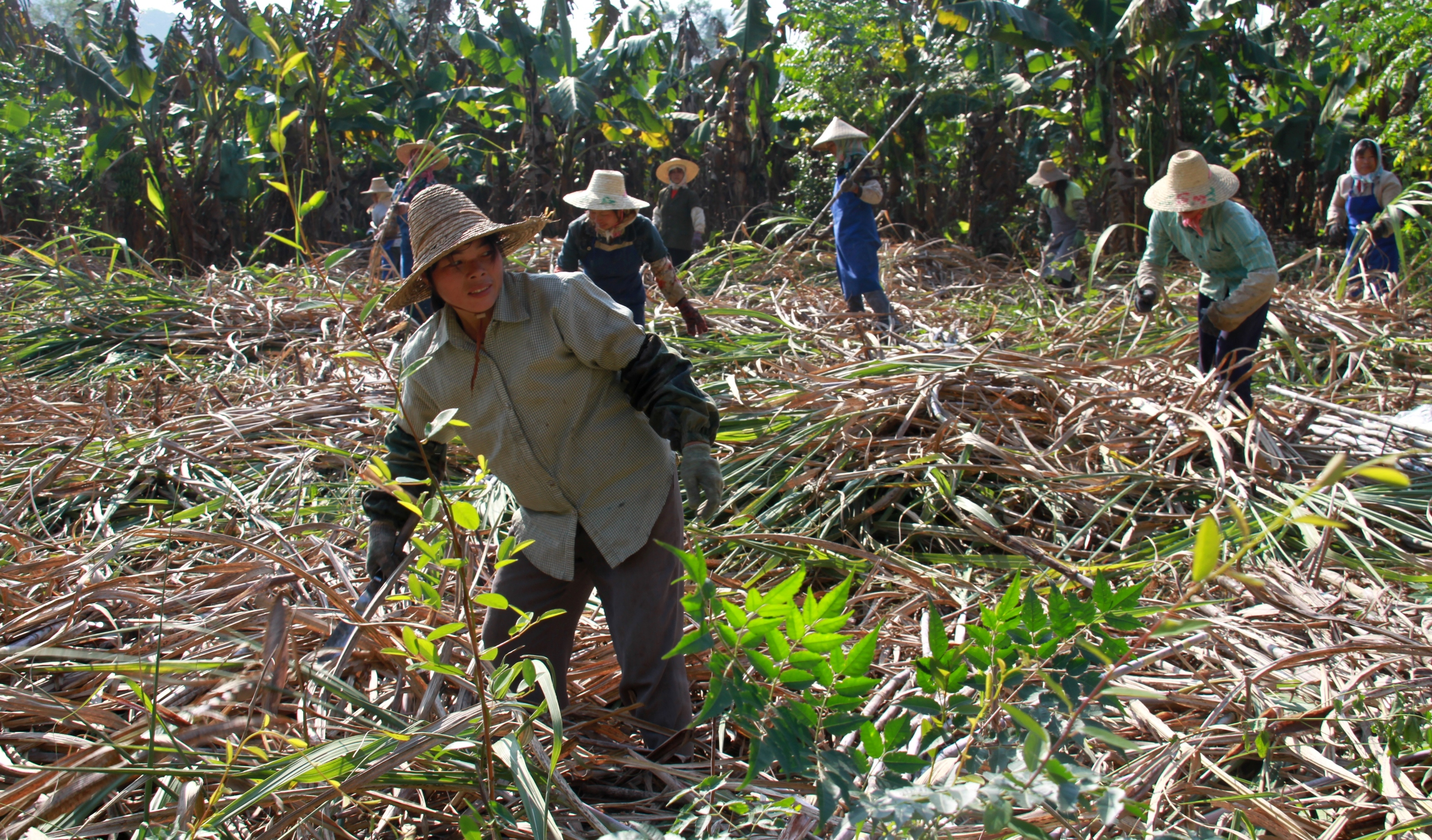 Photograph of Zhuang women harvesting sugar cane in Fusui, Guangxi, China.